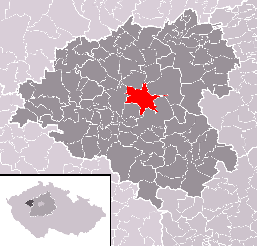 Location of Rakovník town within Rakovník District and (identical) administrative area of Rakovník as a Municipality with Extended Competence.